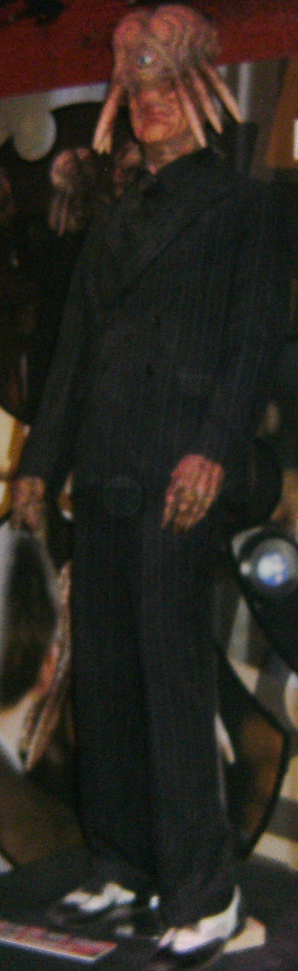 "Daleks in Manhattan" / "Evolution of the Daleks" Doctor Who Experience